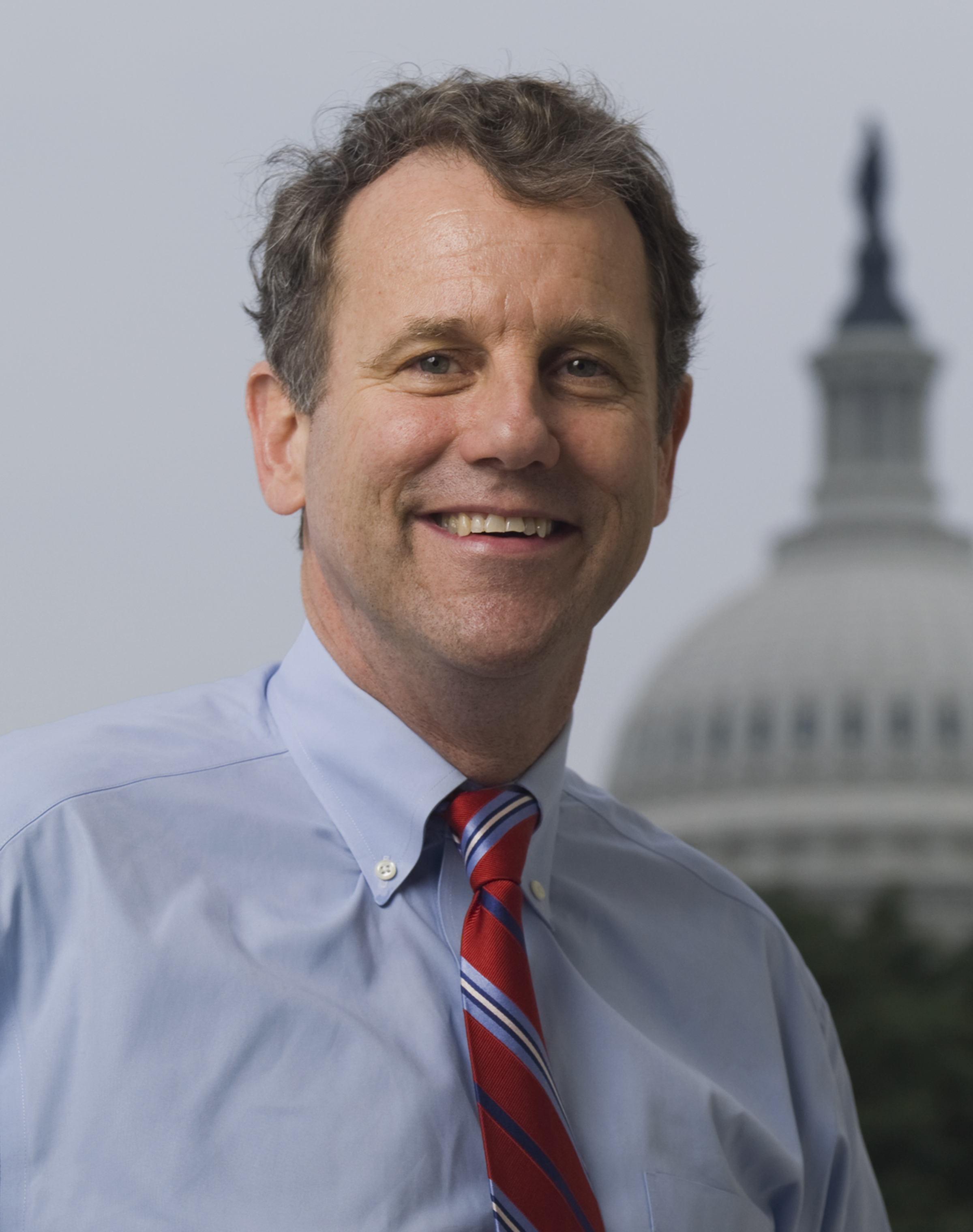 Official photo of Senator Sherrod Brown (D-OH).